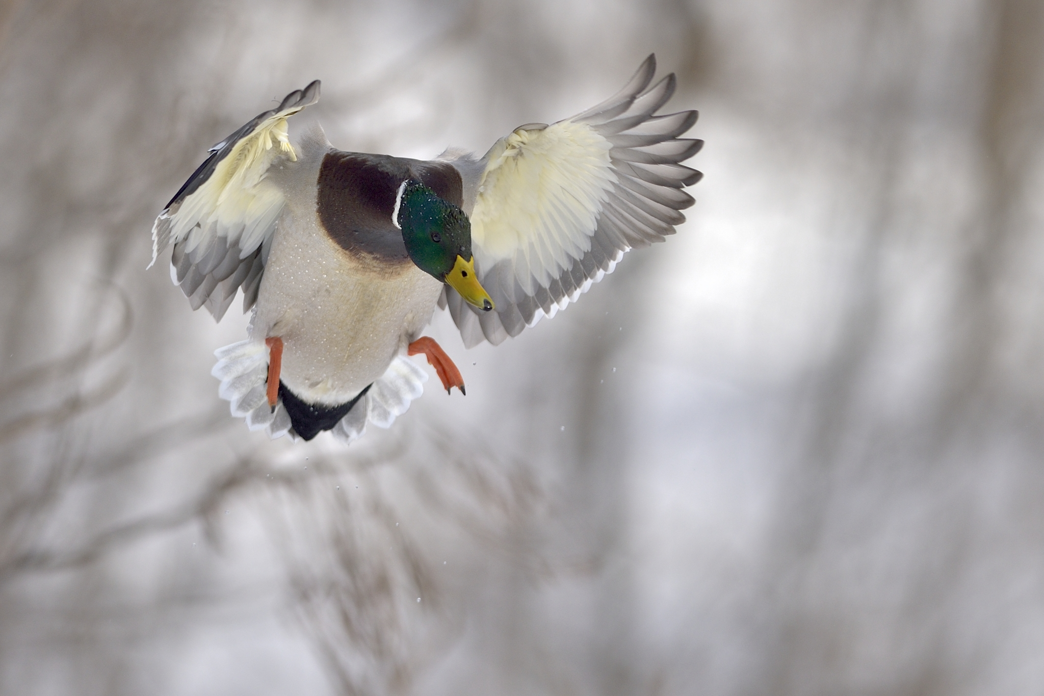 Mallard drake